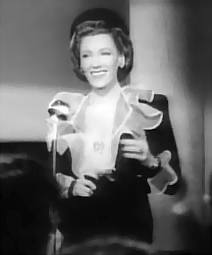 Cropped screenshot of Helen Menken from the film Stage Door Canteen.